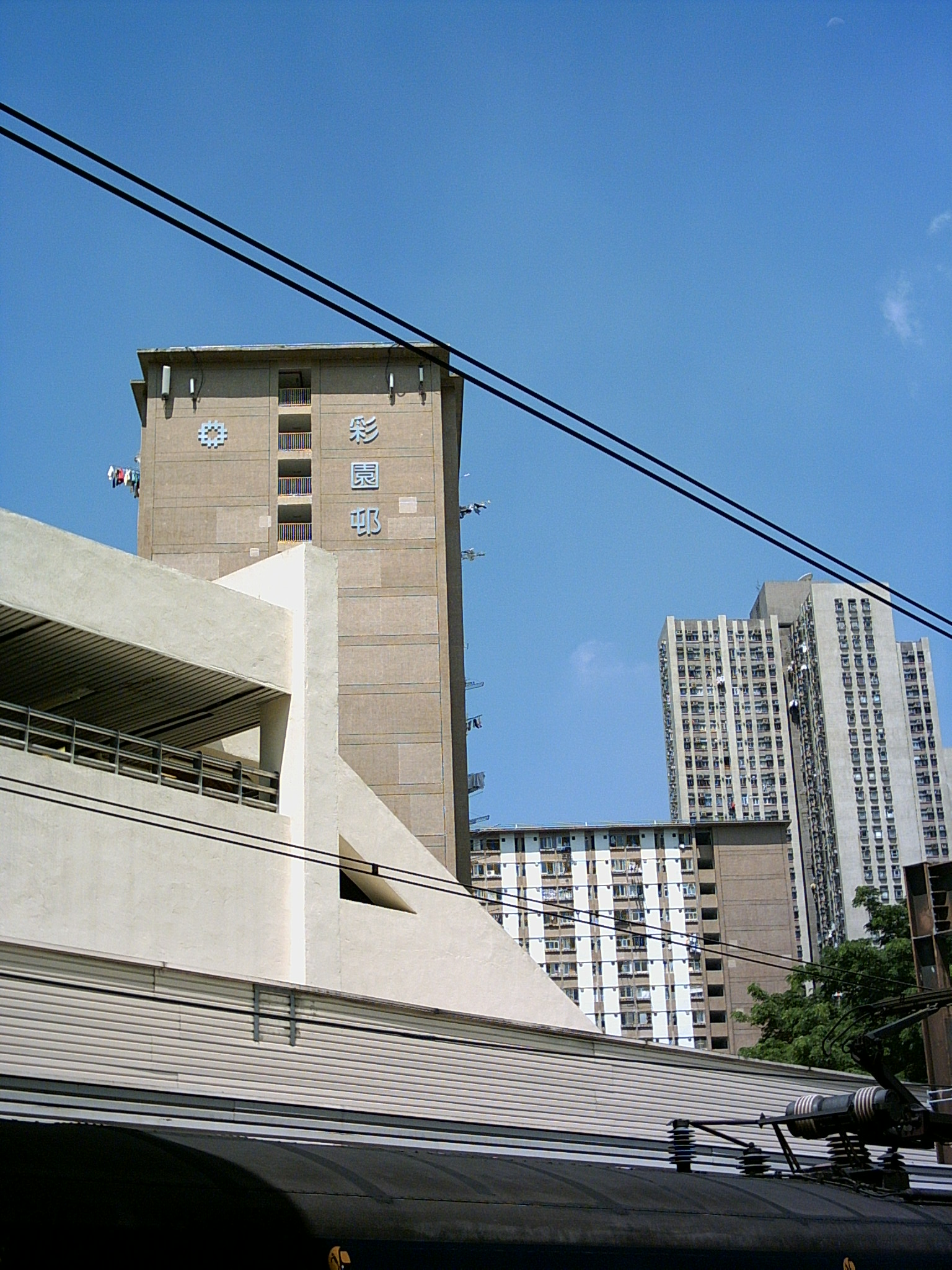 Choi Ping House and Choi Yuk House of Choi Yuen Estate and Choi Pik House of Choi Po Court from left to right. Sheung Shui station in the foreground. Taken by myself in August, 2006.